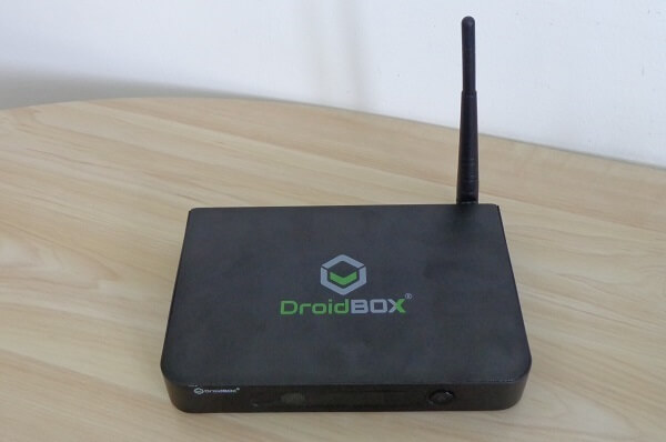 DroidBOX Android XBMC/Kodi TV Box